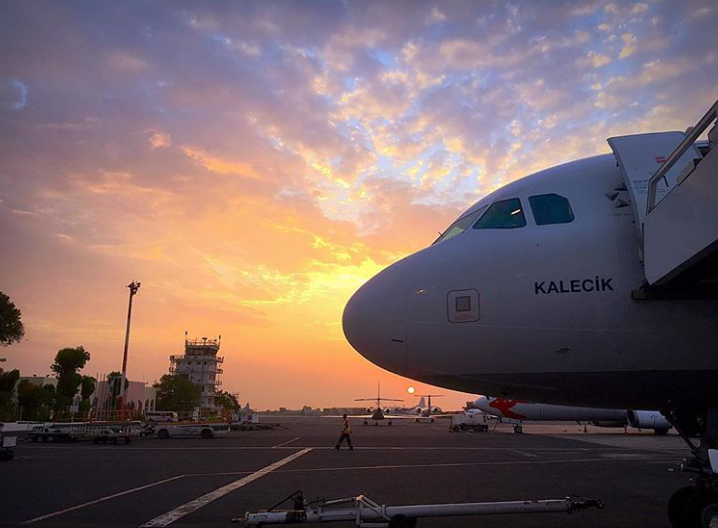 An Turkish Airlines aircraft at the Djibouti–Ambouli International Airport (2016).